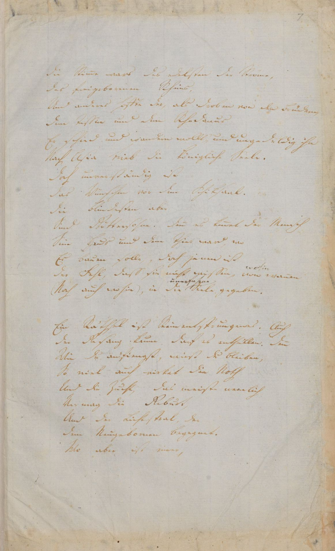 Manuscript of Friedrich Hölderlins poem "Der Rhein", Württembergische Landesbibliothek, page 3